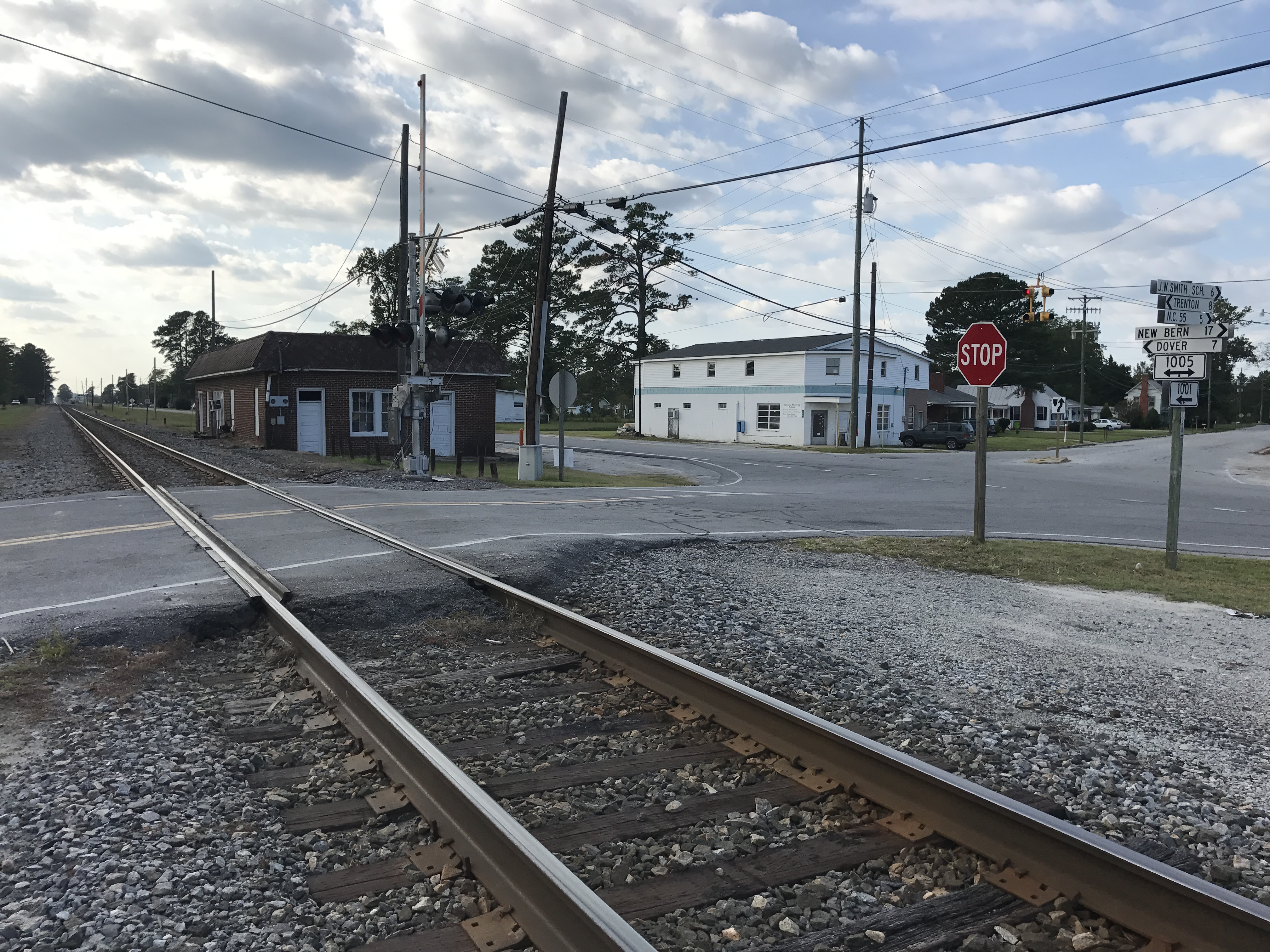 Crossroads and railroad track in Cove City